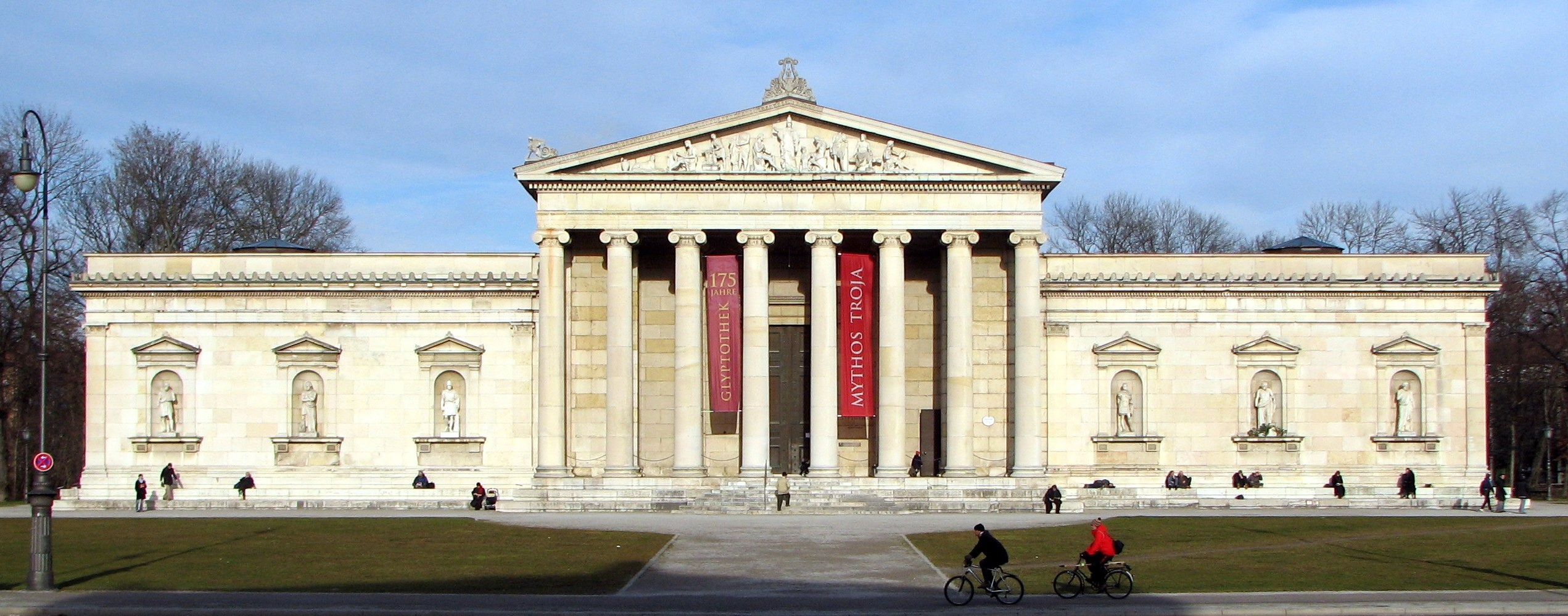 Frontal view of the Glyptothek in Munich.